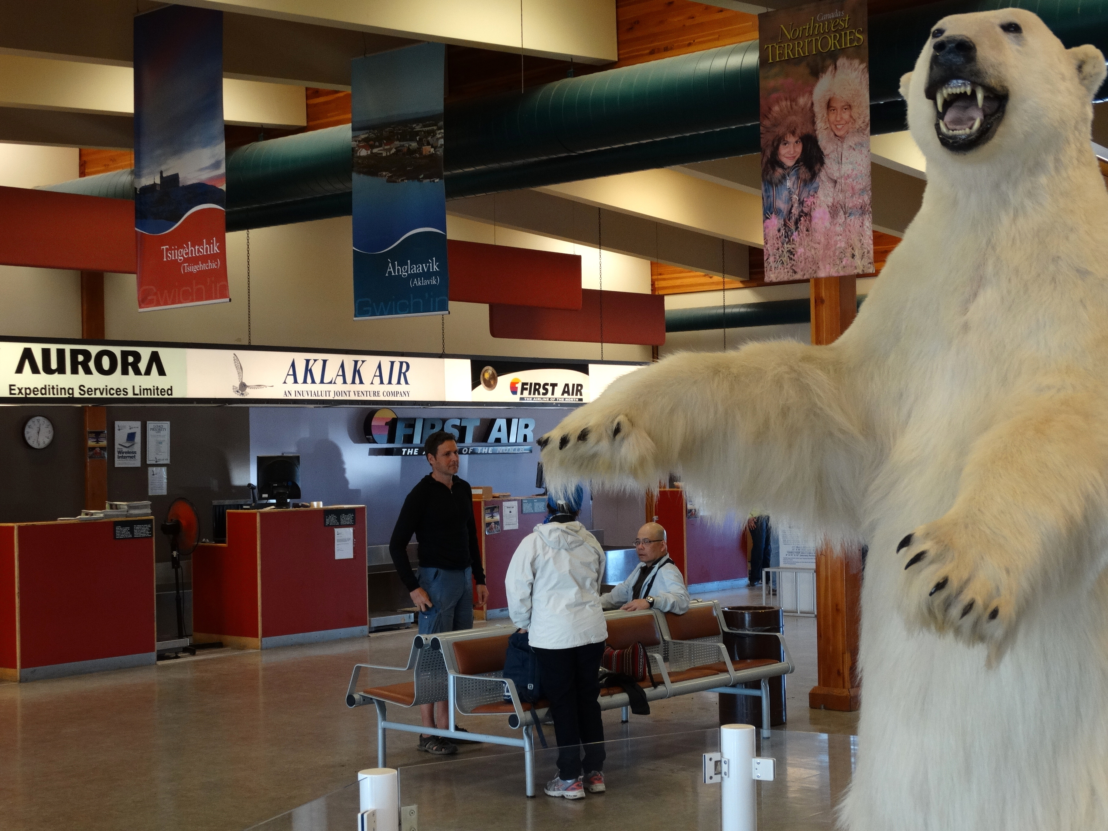 Mike Zubko International Airport - Inuvik - Northwest Territories - Canada